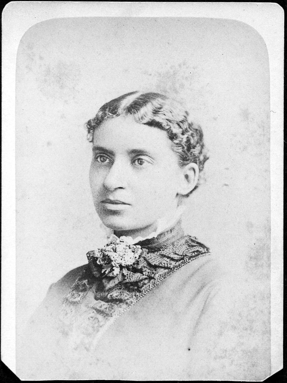 Studio portrait of Charlotte L. Forten Grimke, pioneer teacher and poet.